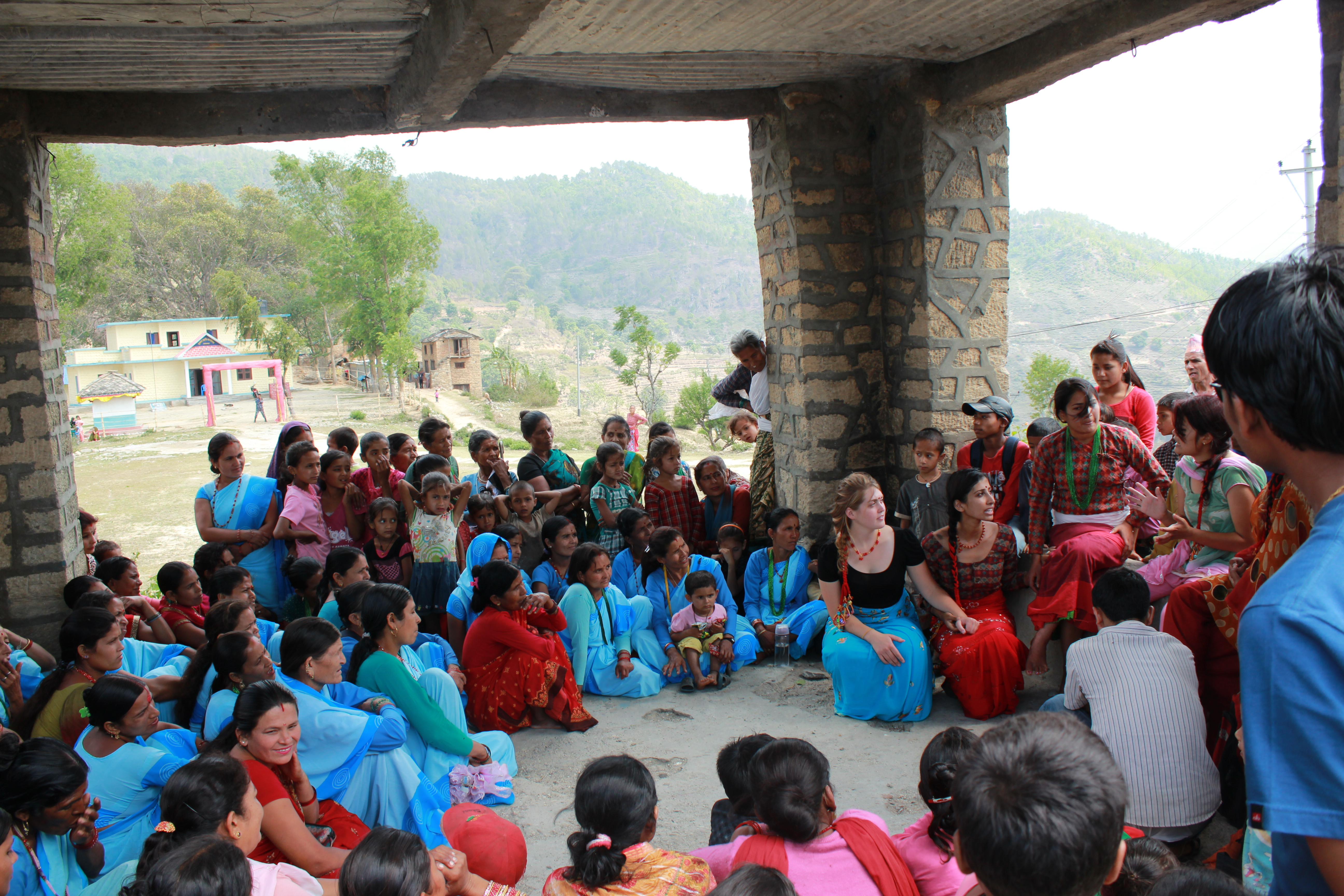 Chhaupadi is a tradition in Achham where menstruating women are viewed as impure and are kept in small unventilated sheds which they sometimes share with cows. Women's health and dignity are compromised and most women express a desire for change. There are cases of death within the sheds due to snake bite, hypothermia, or oxygen deficiency. Girls often miss large portions of school during menstruation because of this tradition. Our clinical and community health staff worked together to create a skit that portrayed the real experience of women during Chhaupadi in effort to open up dialogue about the practice and how it could be modified or eliminated to create a more healthy and just community.